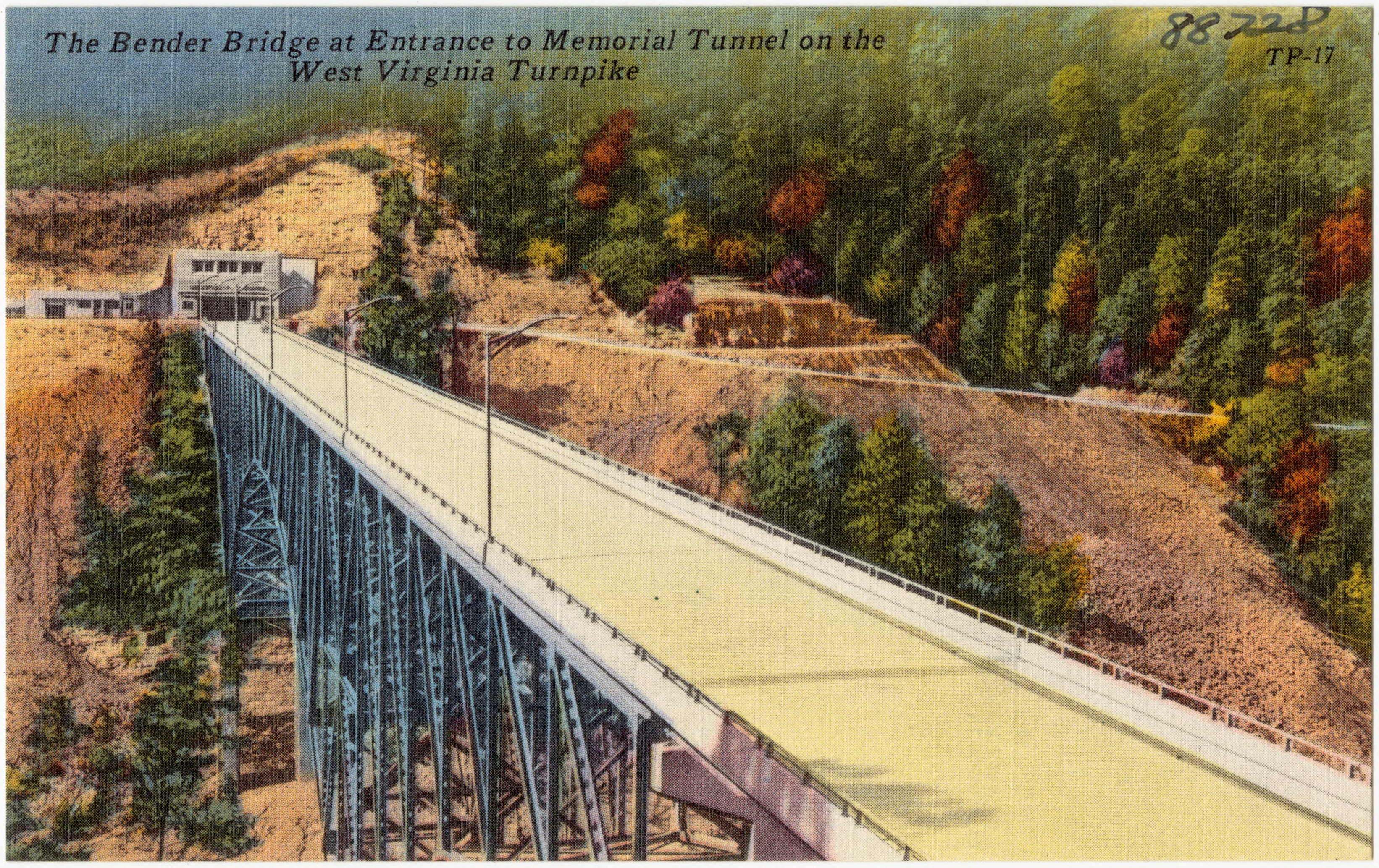 Title: The Bender Bridge at entrance to Memorial Tunnel on the West Virginia Turnpike Subjects: Bridges Places: West Virginia Notes: Title from item. Extent: 1 print (postcard) : linen texture, color ; 3 1/2 x 5 1/2 in. Accession #: 06_10_022413